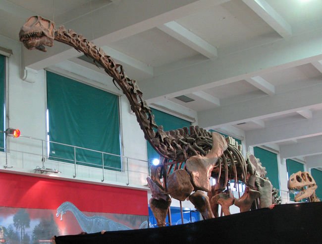 Photograph of the skeleton of Patagosaurus fariasi Bonaparte, 1979. The skeleton is on display at Museo Argentino de Ciencias Naturales, in Argentina. Patagosaurus is a basal eusauropodan, closely related to Cetiosaurus possibly within Cetiosauridae. Photograph by Mathijs de Bruijne.